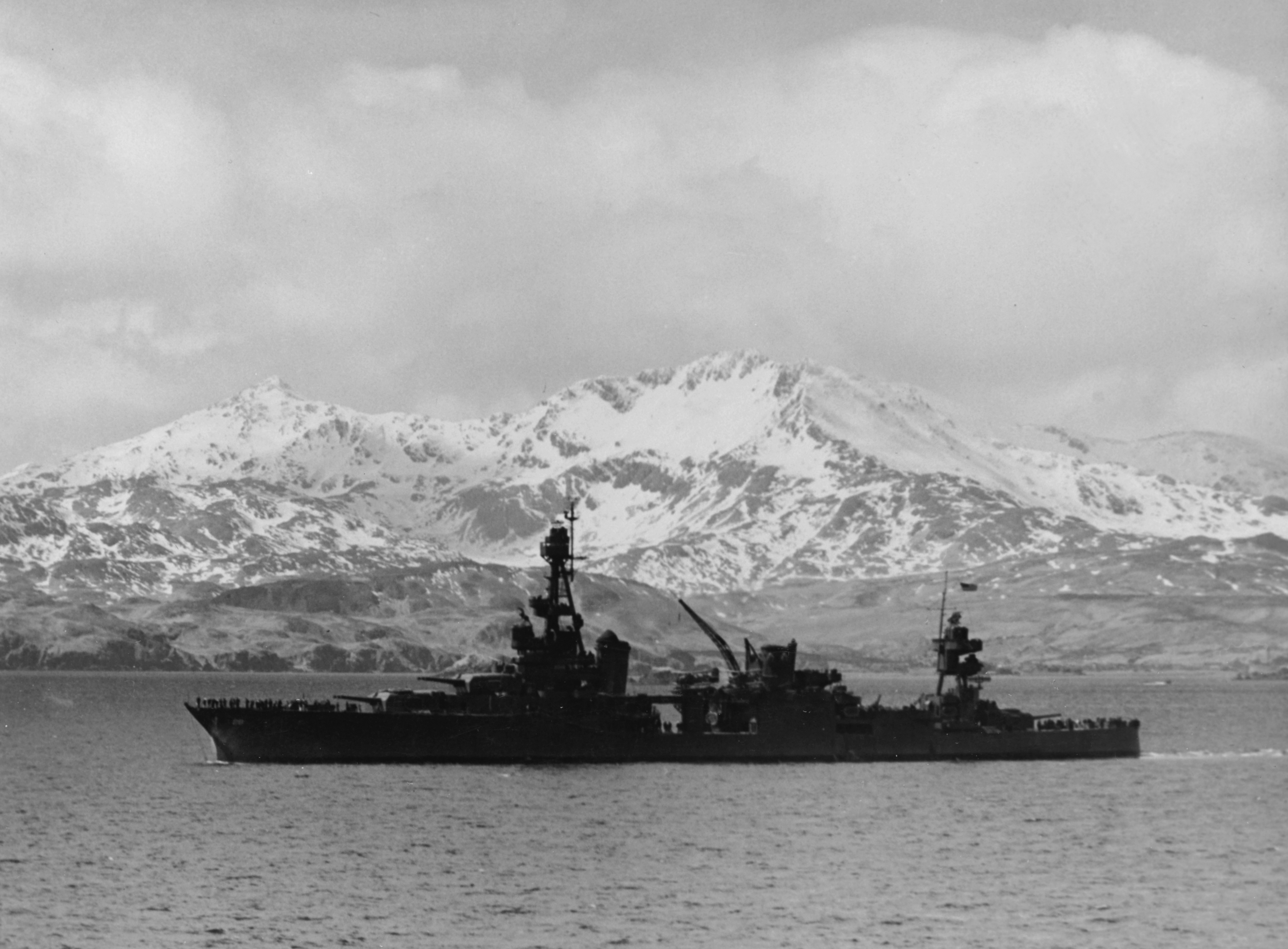 The U.S. Navy heavy cruiser USS Louisville (CA-28) steams out of Kulak Bay, Adak, Aleutian Islands, bound for operations against Attu, 25 April 1943. The photograph looks toward Sweepers Cove.